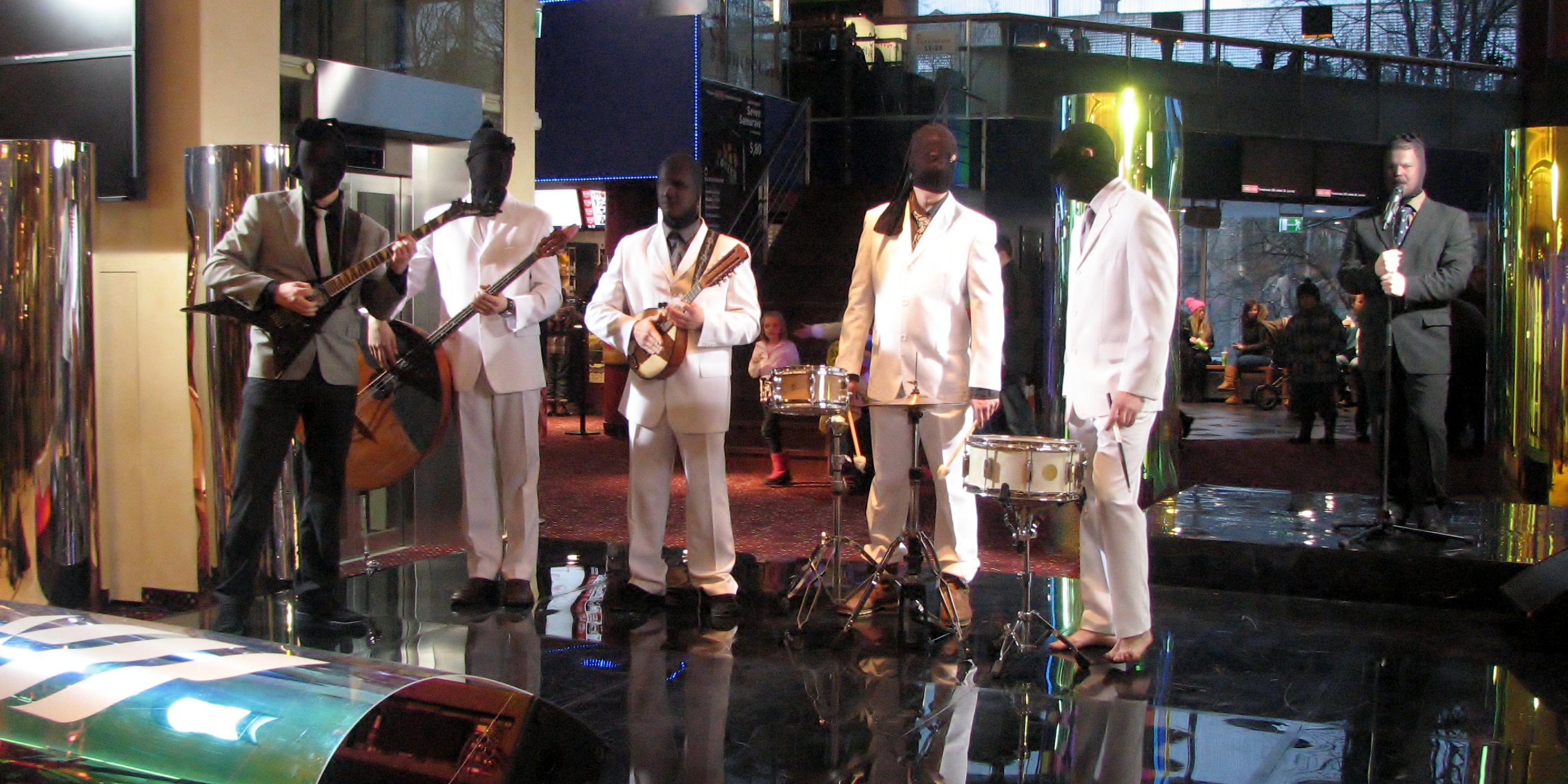 Estonian band Winny Puhh performing in Solaris centre, Tallinn